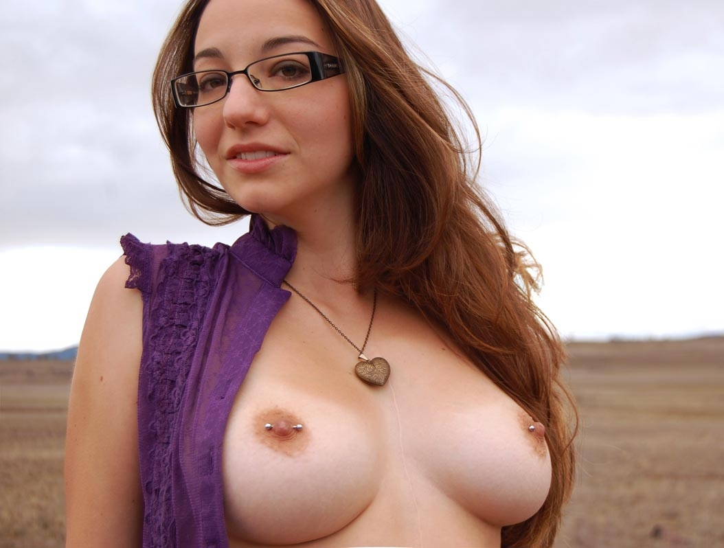 Australia countessa